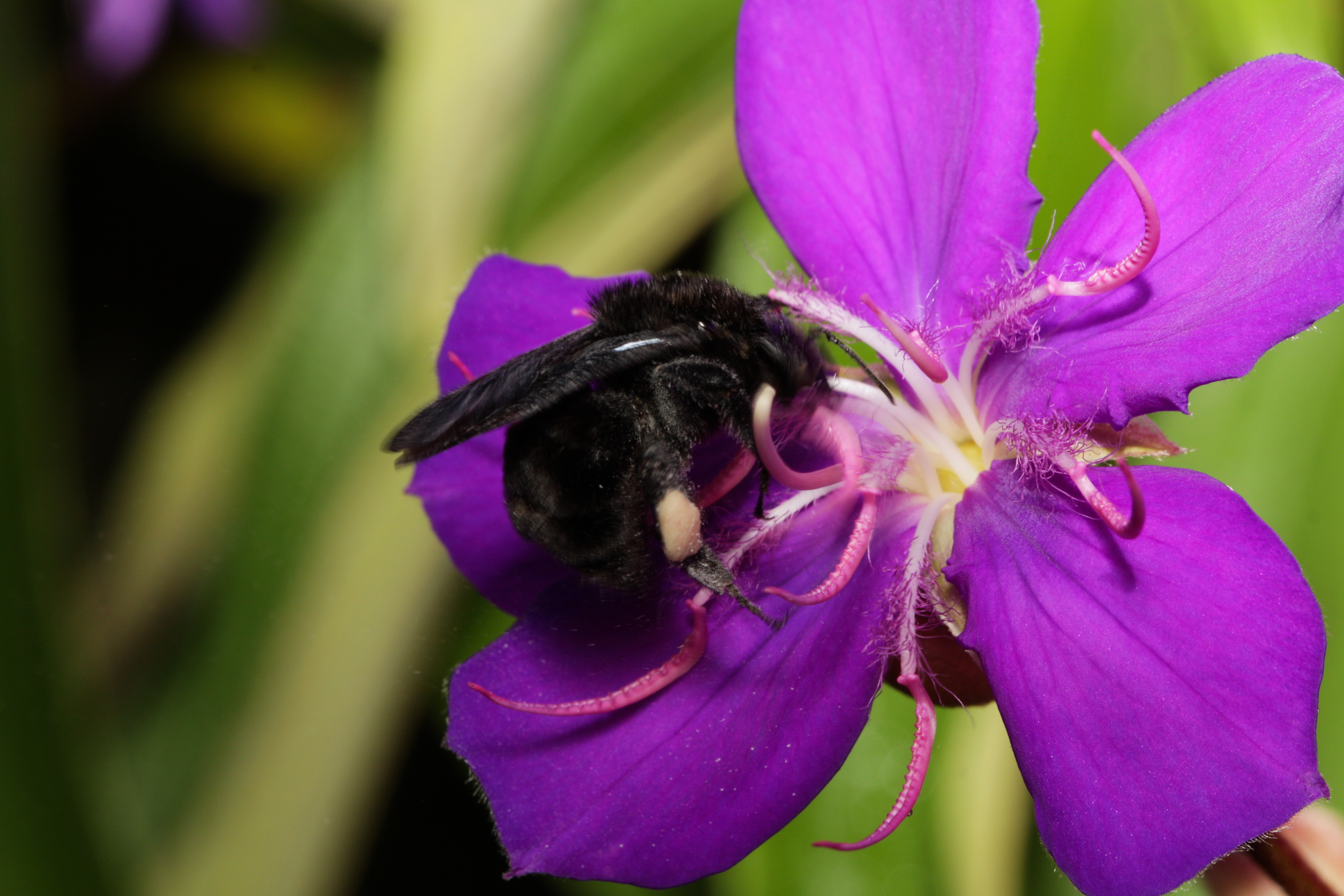 Bombus morio bumblebee visiting Tibouchina granulosa flower. Photo taken at Ubatuba, SP, Brasil